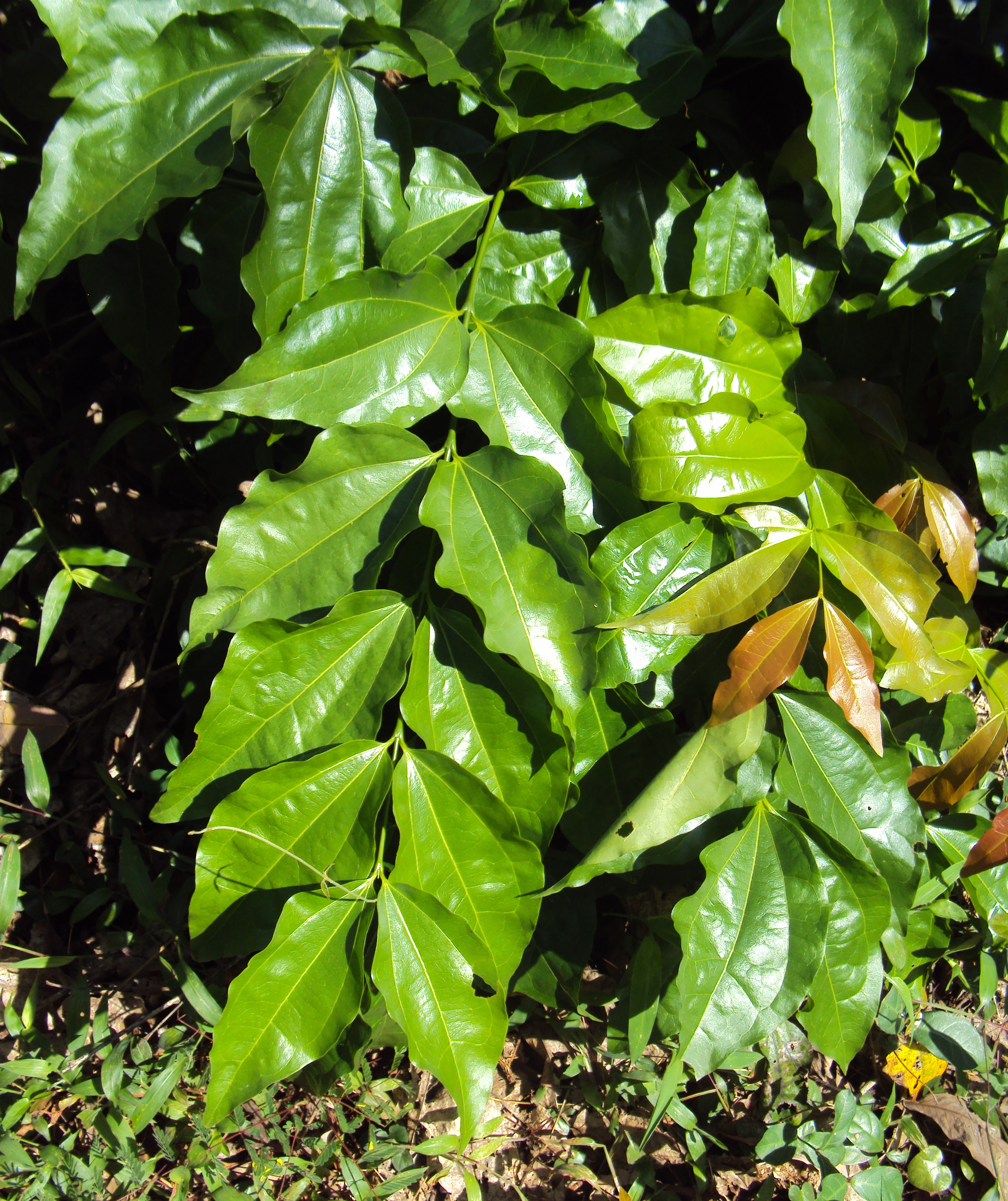 Strychnos nux-vomica